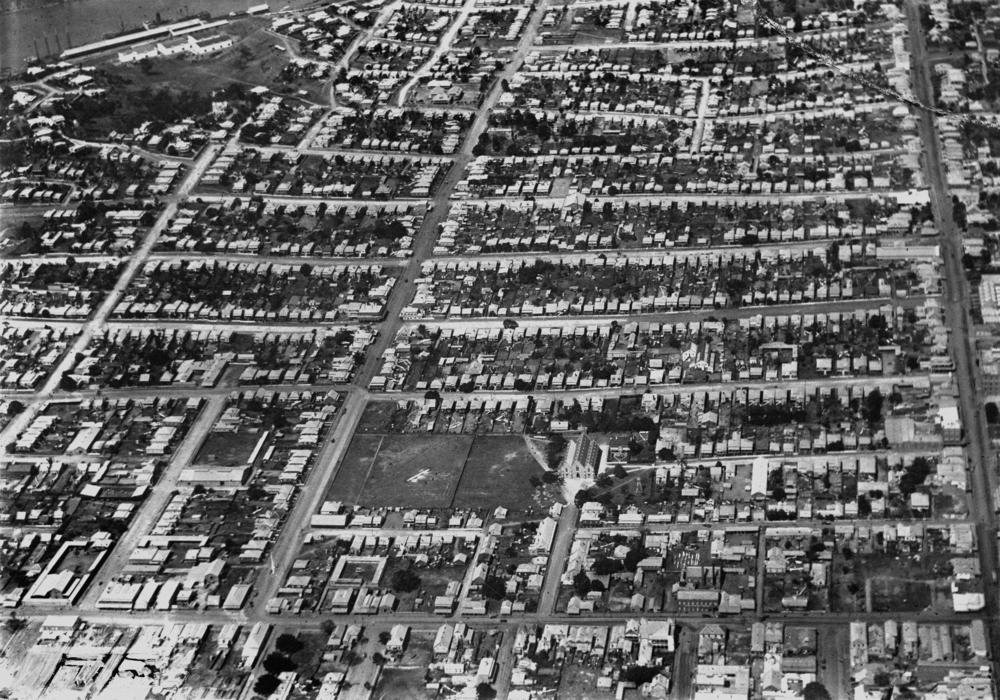 Fortitude Valley and New Farm from the air, Brisbane, 1919